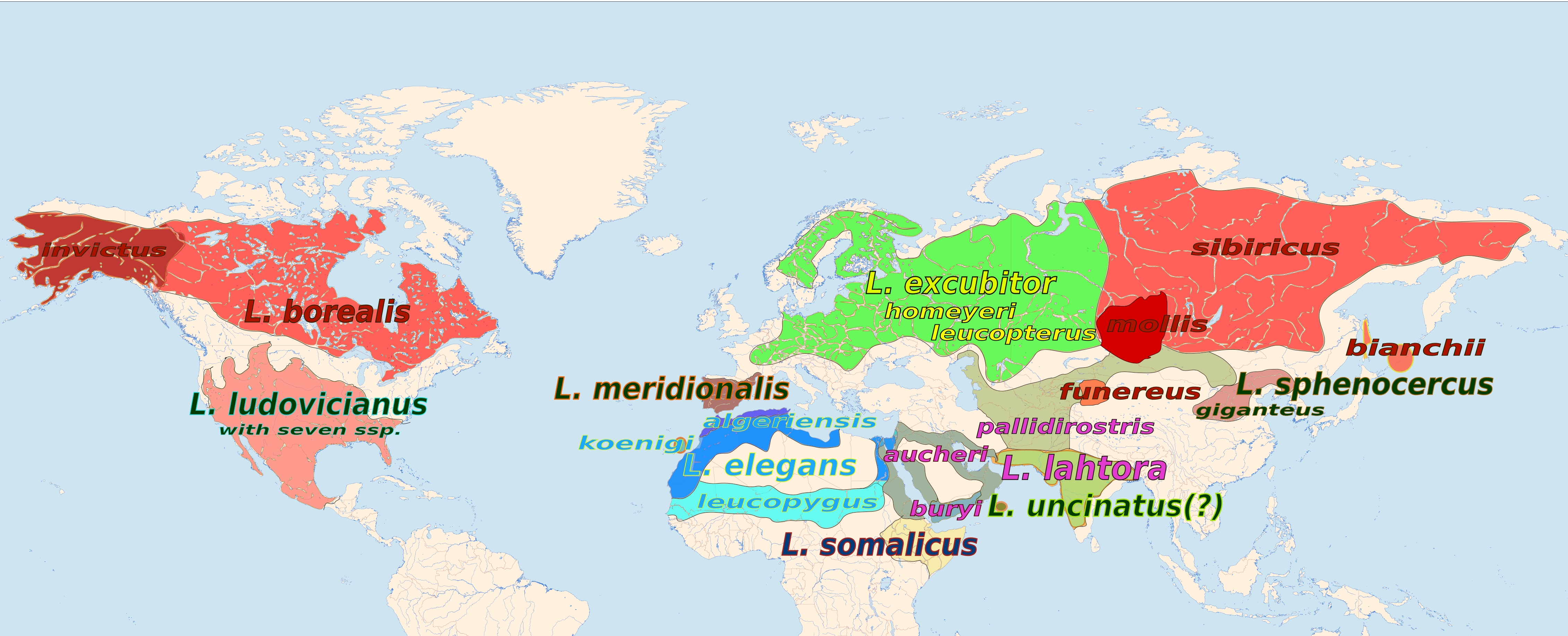 Phylogenetic family tree of the Great Grey Shrike (Lanius excubitor) sensu lato according to P oelstra (2010), with taxa to be separated according to species status